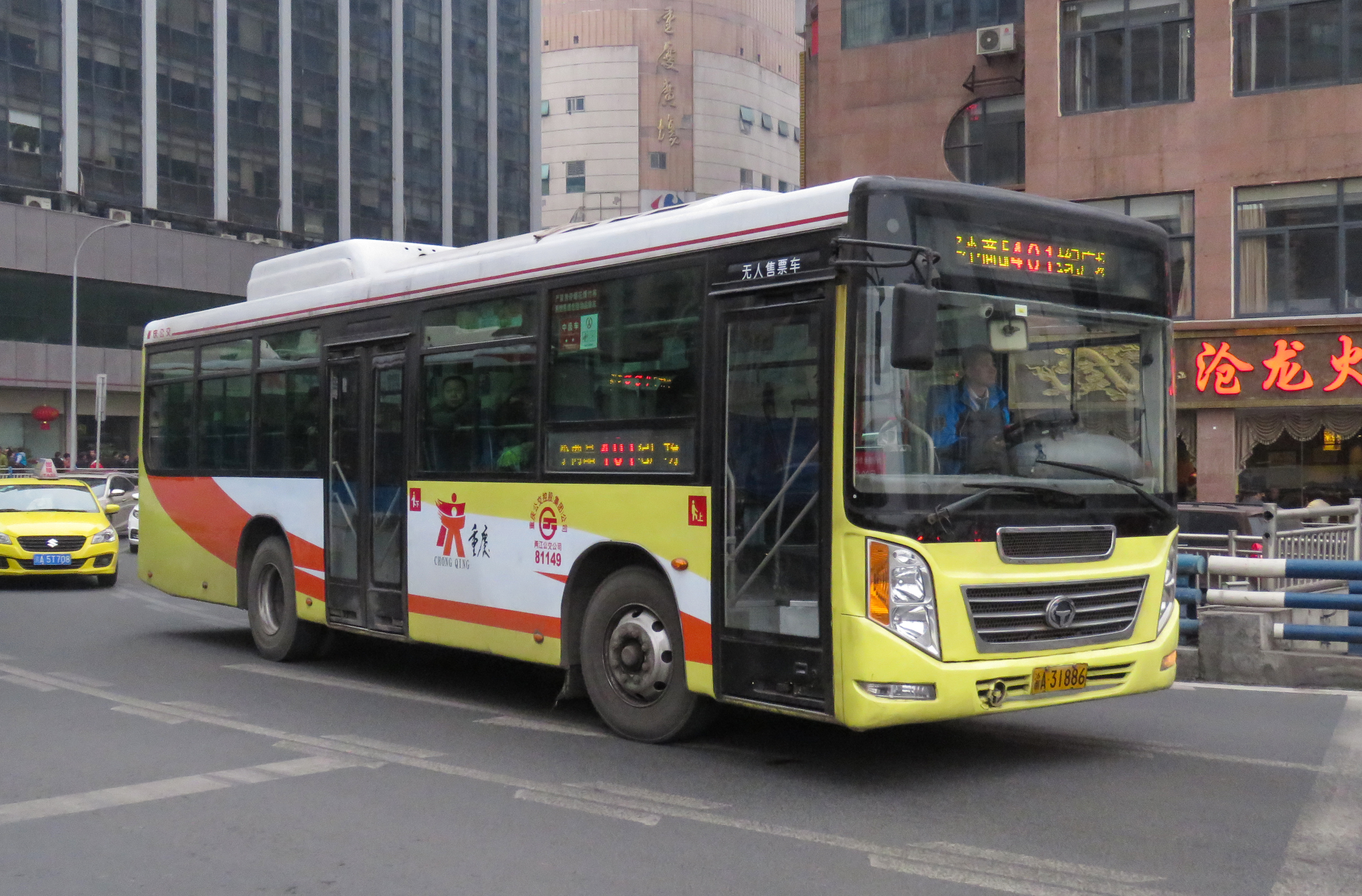 Route 401 passes here without stopping, using front-engined buses (with vacant seats).